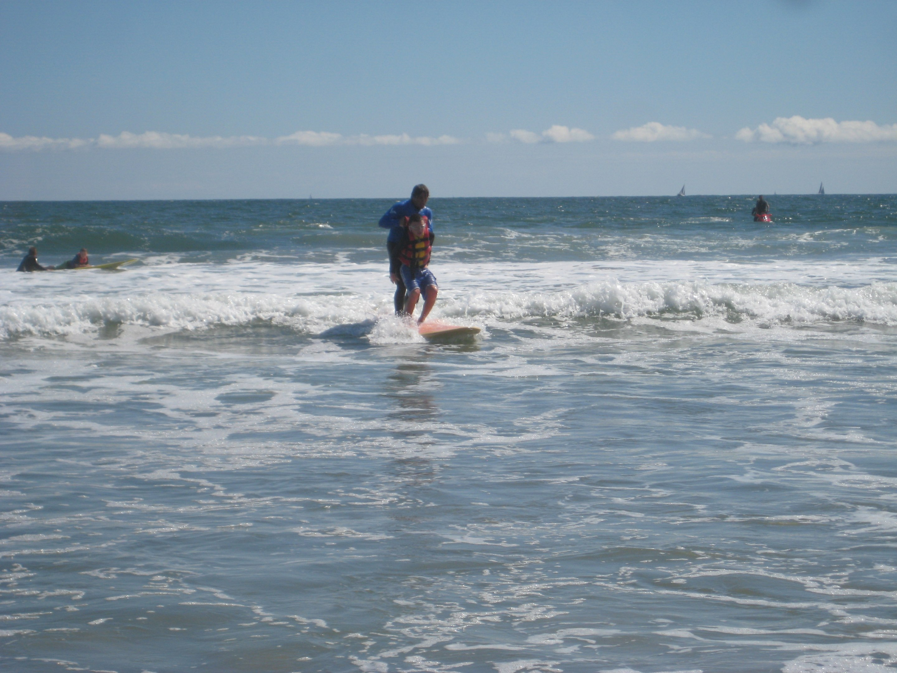 Surfers Healing was founded by Israel and Danielle Paskowitz.Their son, Isaiah, was diagnosed with autism at age three. Like many autistic children, he often suffered from sensory overload-- simple sensations could overwhelm him. The ocean was the one place where he seemed to find respite. A former competitive surfer, Israel hit upon an idea--with Isaiah on the front of his surfboard, and Izzy steering from the back, the two spent the day surfing together. Surfing had a profound impact on Isaiah. Israel and Danielle decided they wanted to share this unique therapy with other autistic children. They began to host day camps at the beach where autistic children and their families could be exposed to a completely new experience of surfing.